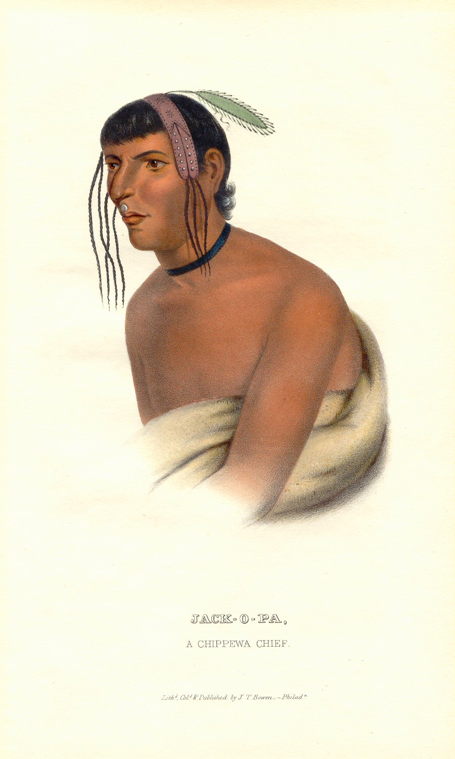 Jack-O-Pa (Shák'pí ("Shakopee"/"Six")), A Dakota/Chippewa Chief, painted by Charles Bird King, Lithographed, colored and published ca. 1836-44 by J.T. Bowen, Philadelphia. SI.1990.001 H.10 1/4" X W.6 3/8" (octavo)